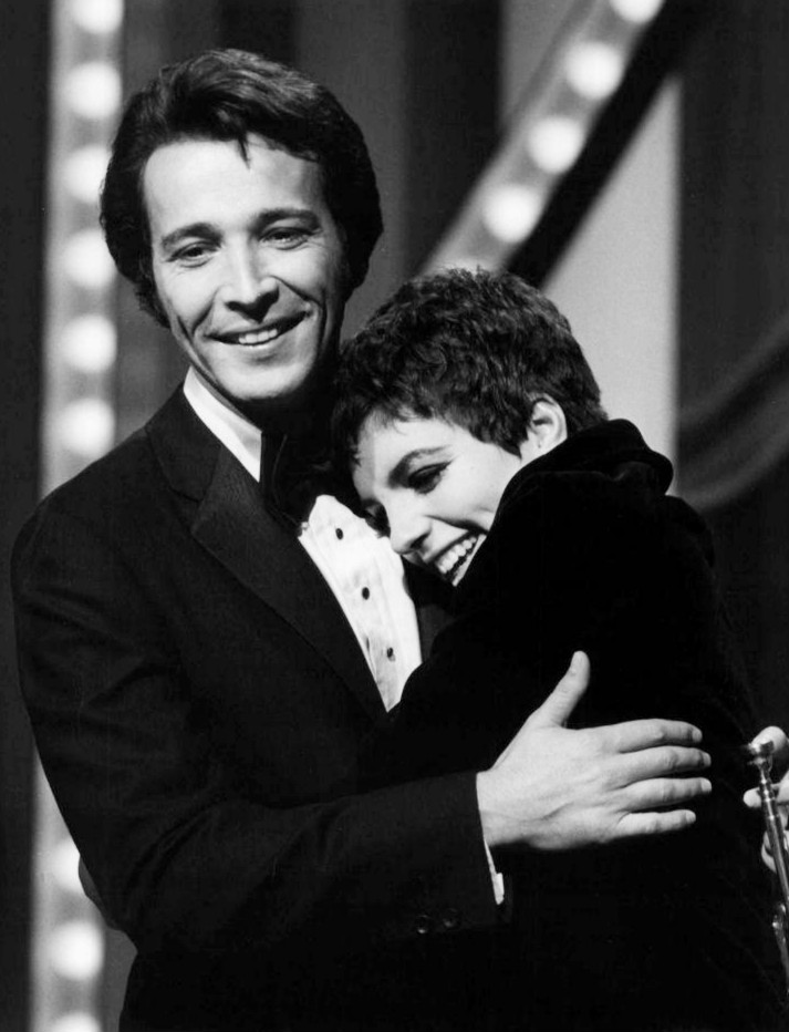 Photo of Herb Alpert and Liza Minnelli from the television program The Hollywood Palace.